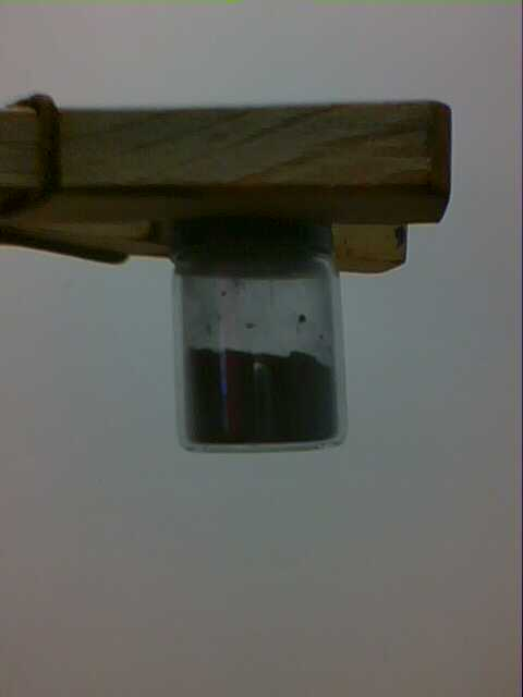 Selenium powder